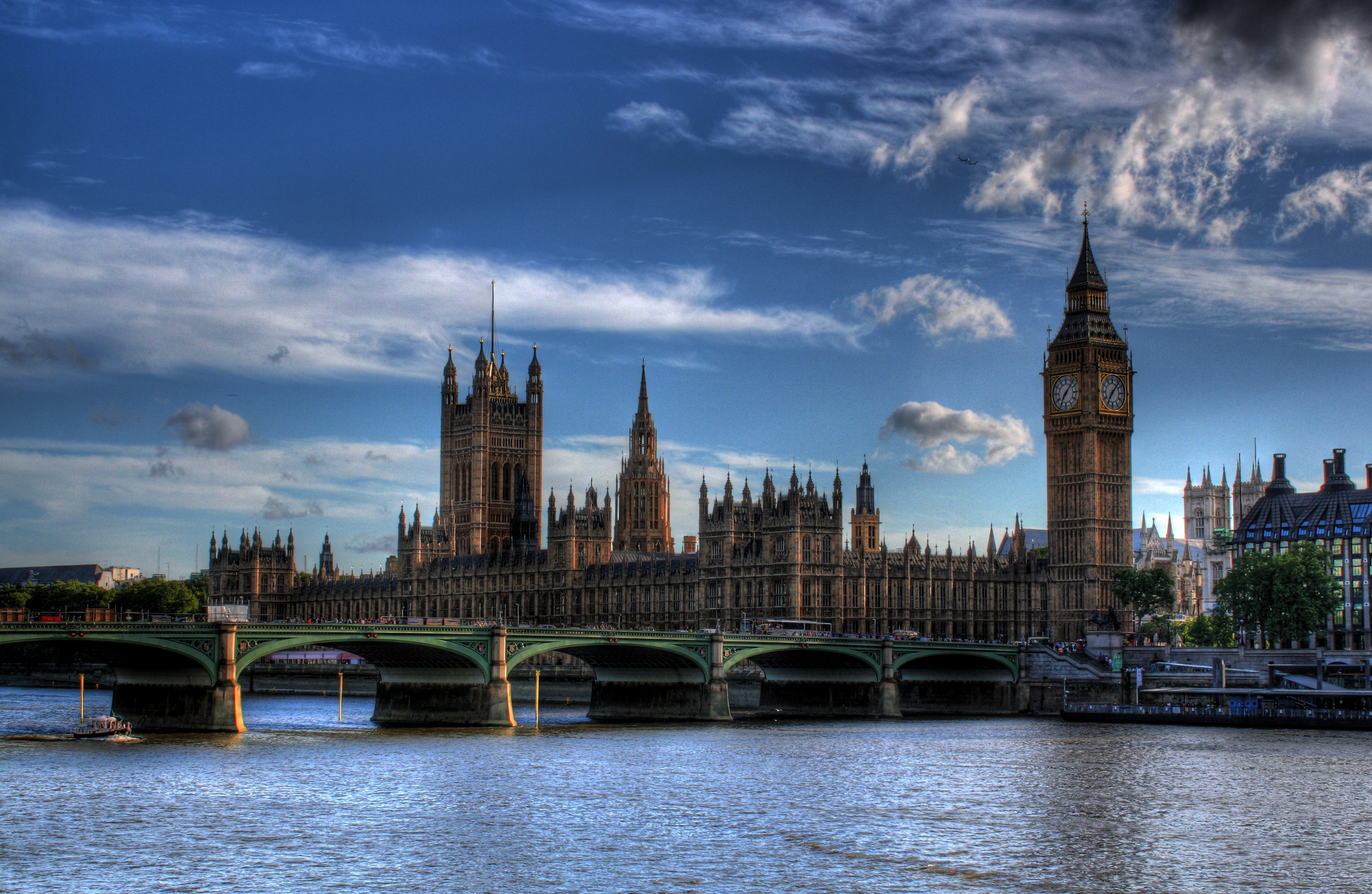 An HDR image of Parliament and Westminster Bridge